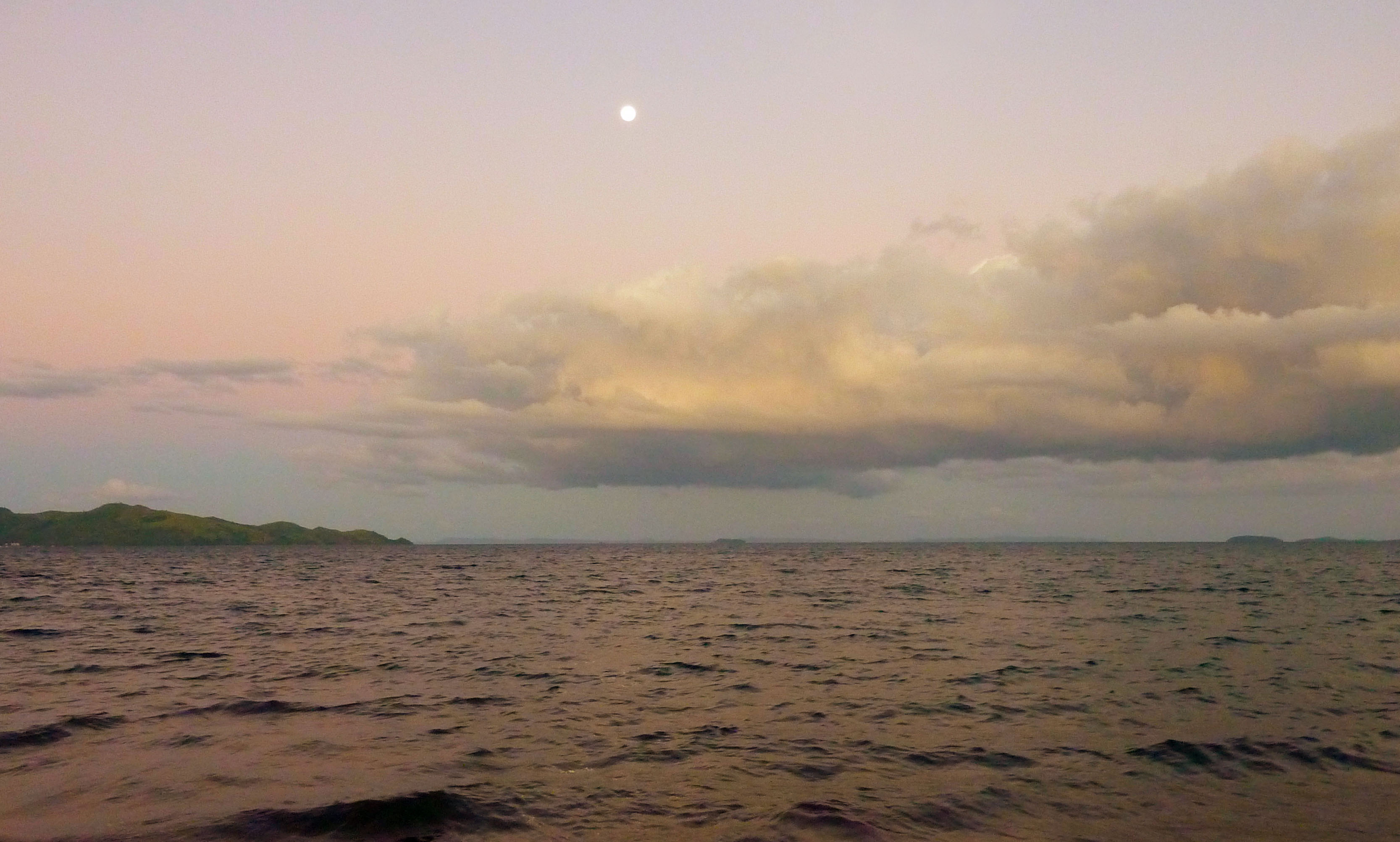 Looking east from Cagbantoy Beach to the Pacific Ocean, near Placer, Surigao del Norte.